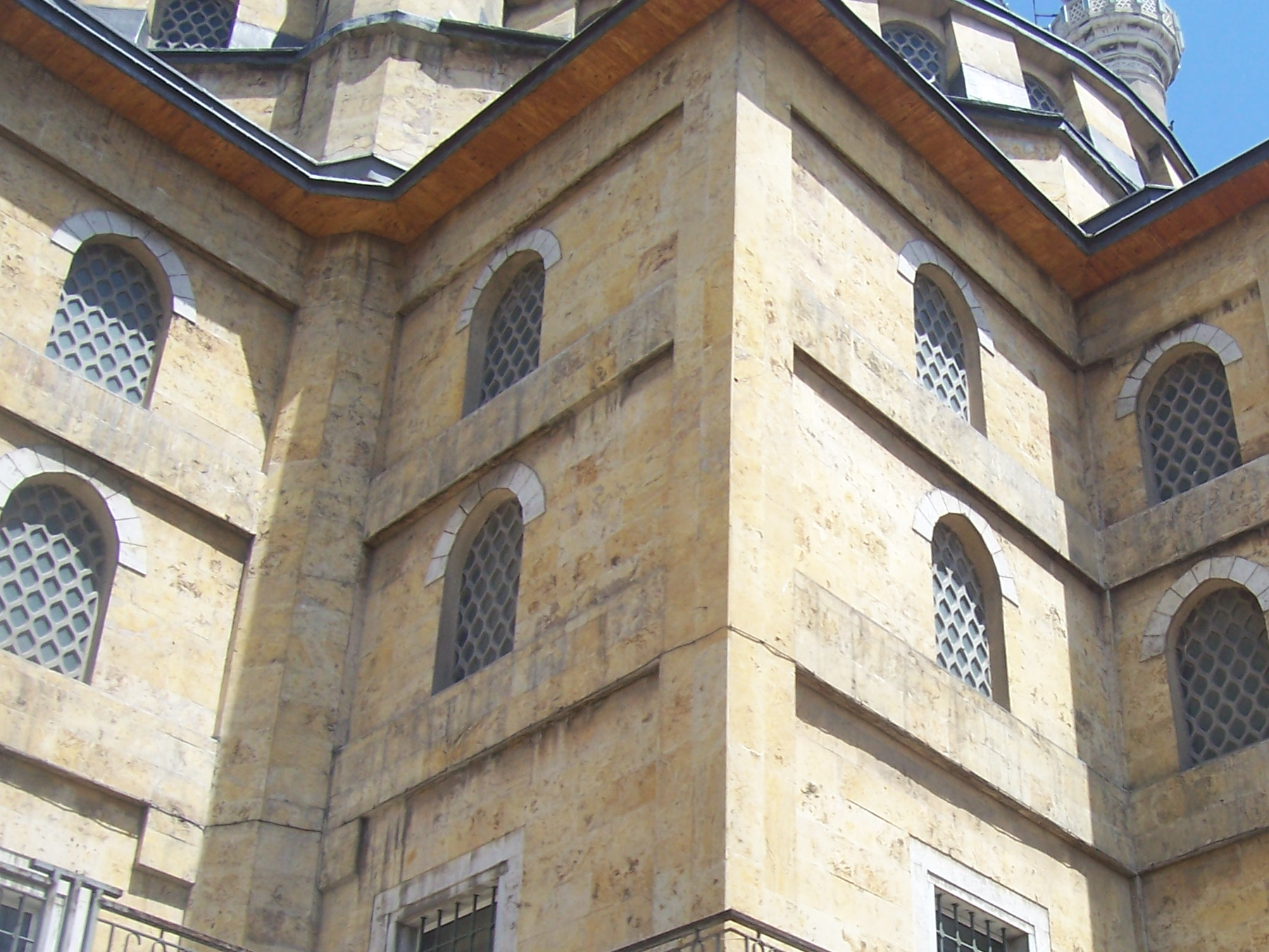 Sivas Pasha Mosque